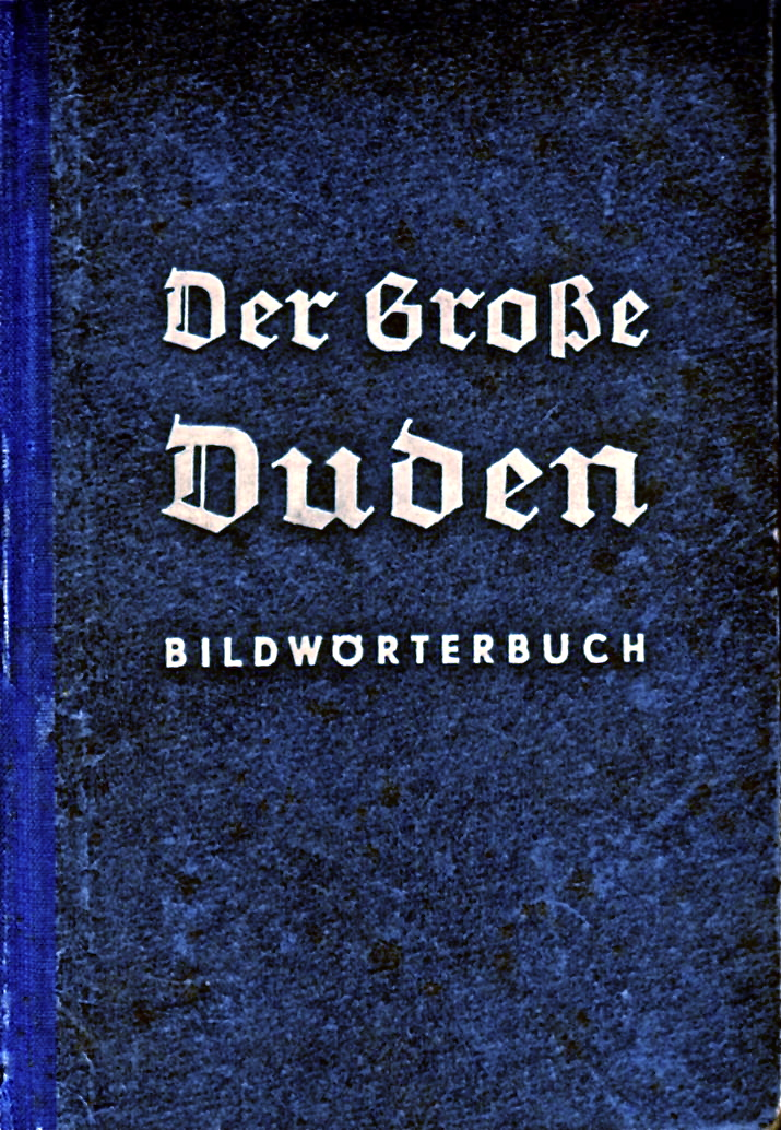 "Der Große Duden" pictorial dictionary Bibliographisches Institut AG. in Leipzig, 1938